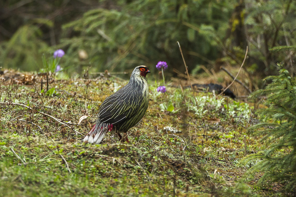 Blood Pheasant - Bhutan_S4E8016